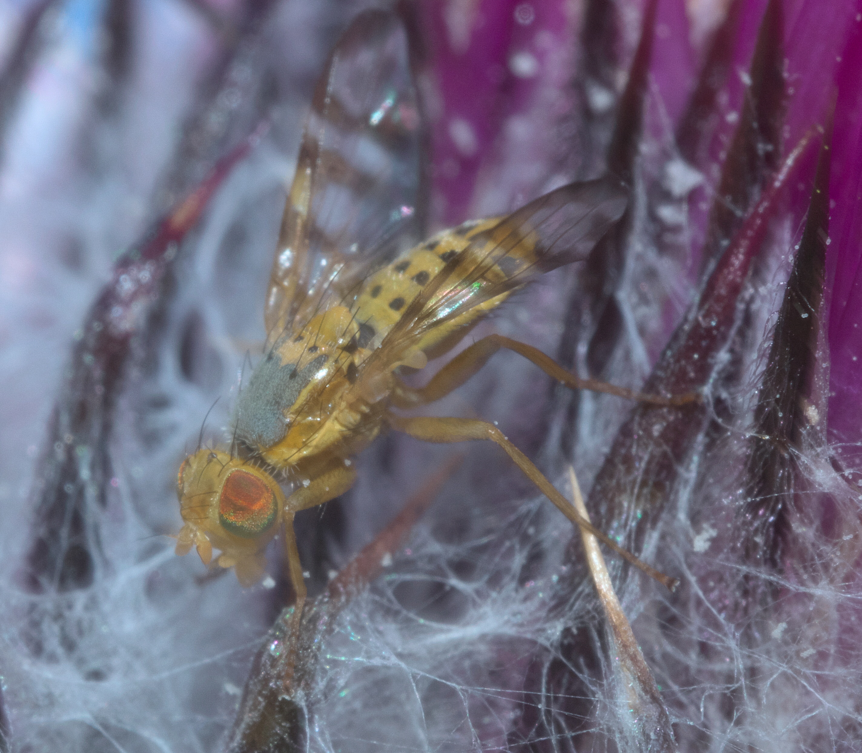 Terellia occidentalis, Family: Fruit Flies, Size: 5.5 mm, ID Confidence: 98